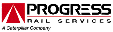 Logo of railroad company Progress Rail Services.